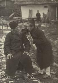 Khersonskaia province: Jews. Image text: Khersonskoi gubernii. Evrei.